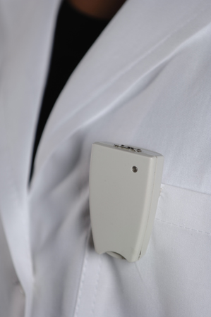 dosimetry dosimeter dosimetro RMN NMR radiazioni non ionizzanti non ionizing